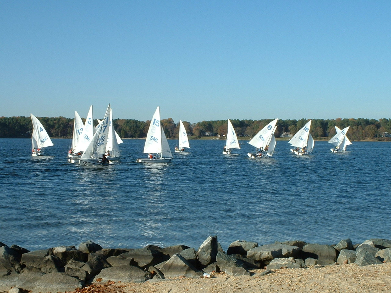 St. Mary's College of Maryland Sailing Team practicing just offshore from the college waterfront. Photo by Angelala, 11/07/04.